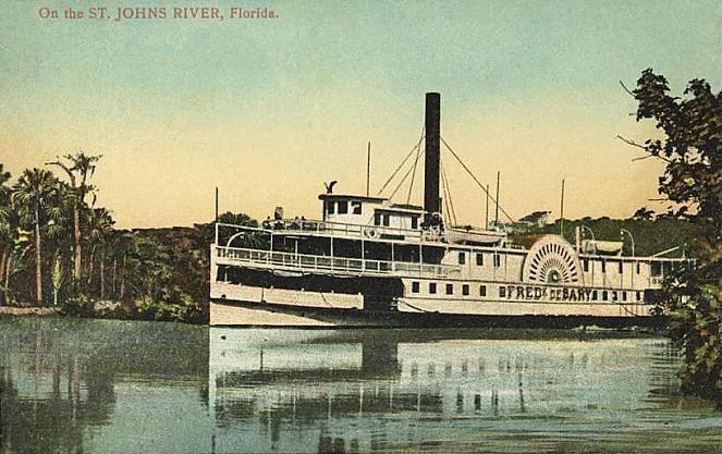 The steamer Frederick DeBary on the St. Johns River, Florida